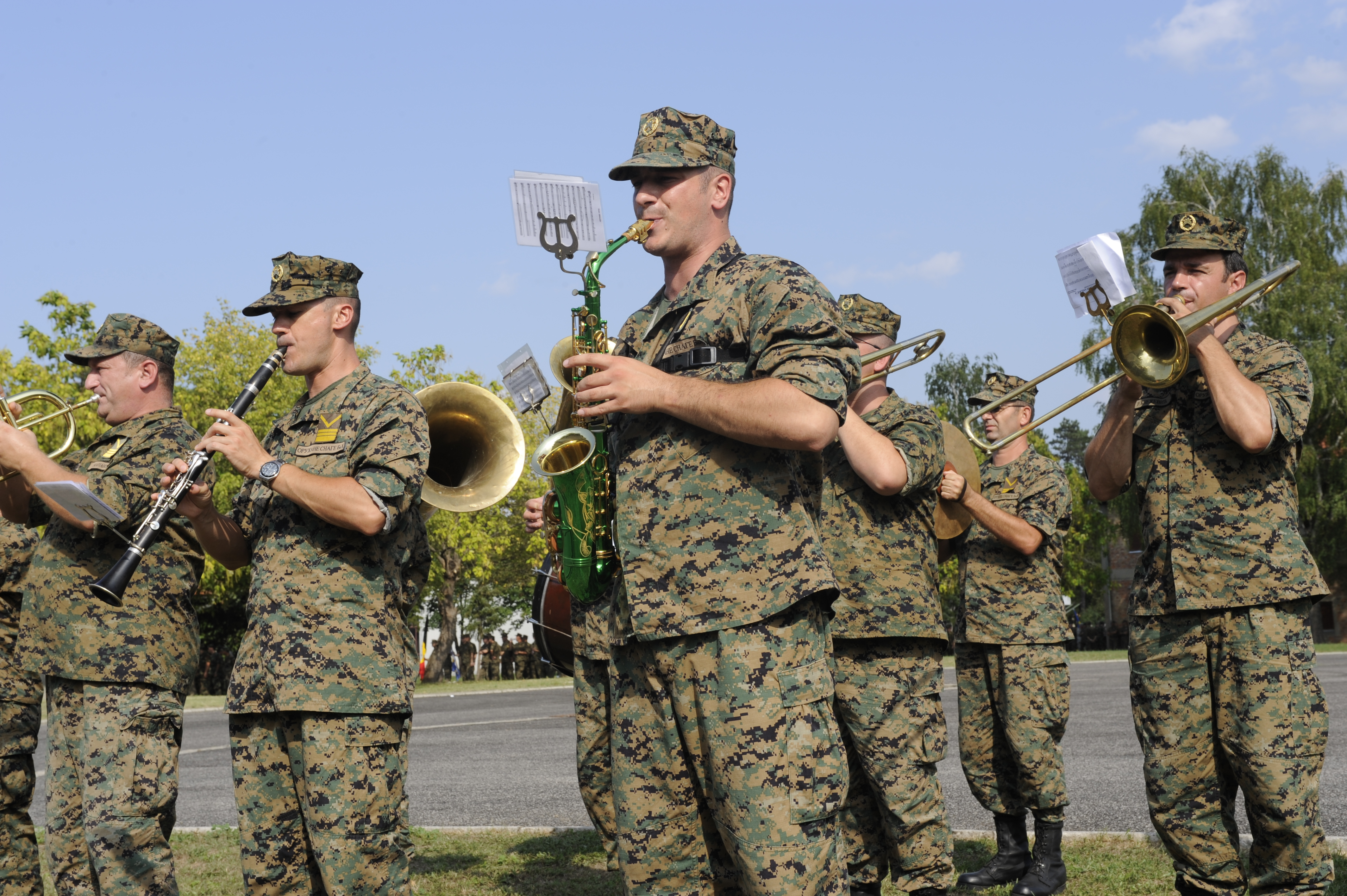 Members of the Bosnian Kozara Barracks band play Sept. 3, 2009, during the opening ceremonies for Combined Endeavor 2009 at Kozara Barracks, Bosnia-Herzegovina. Combined Endeavor is a Headquarters U.S. European Command-sponsored communications and information systems interoperability test between and among Partnership for Peace and NATO nations. (U.S. Air Force photo by Tech. Sgt. Prentice L. Colter/Released)